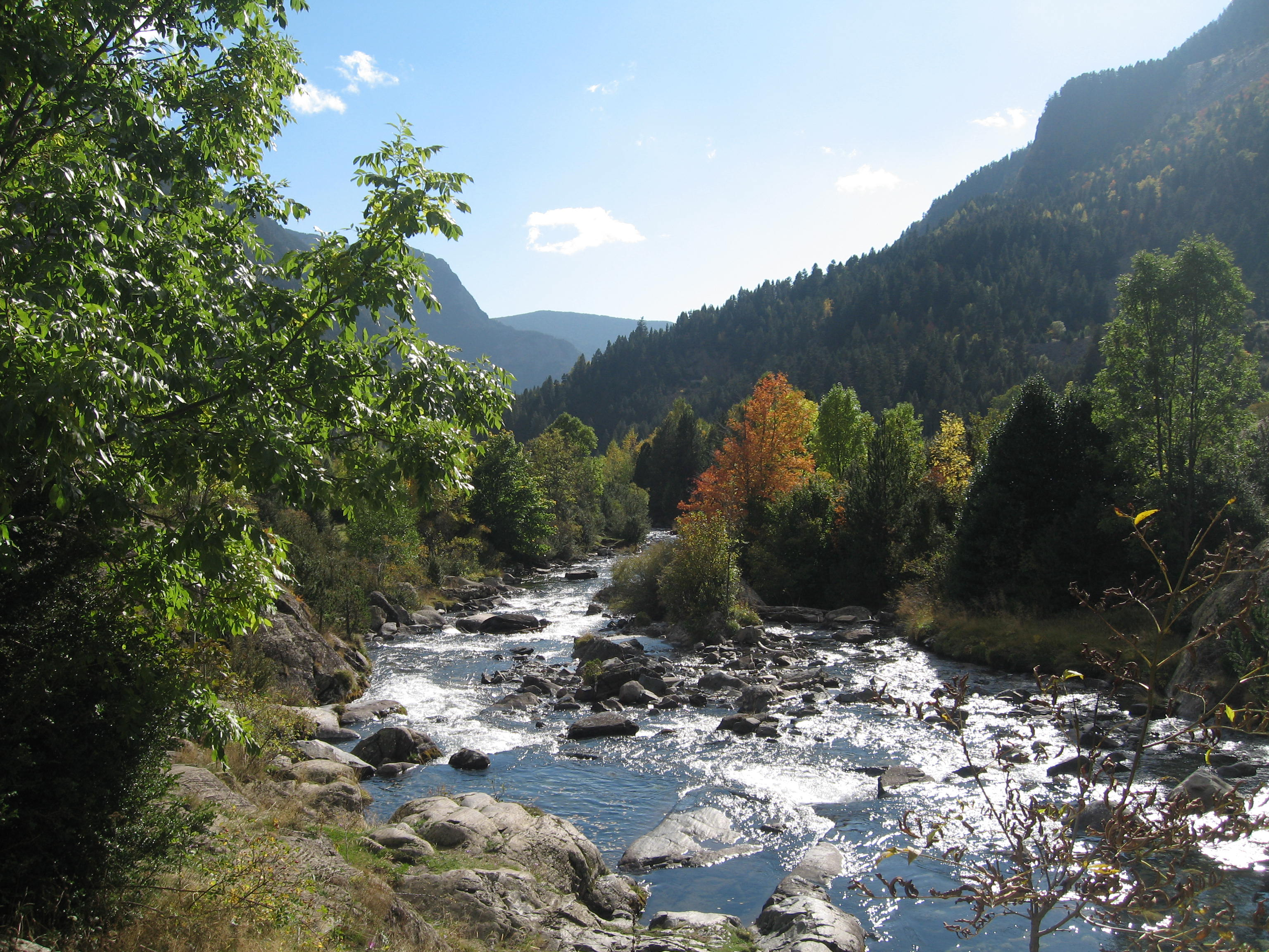 A stream in Posets-Maladeta park, near Benasque.